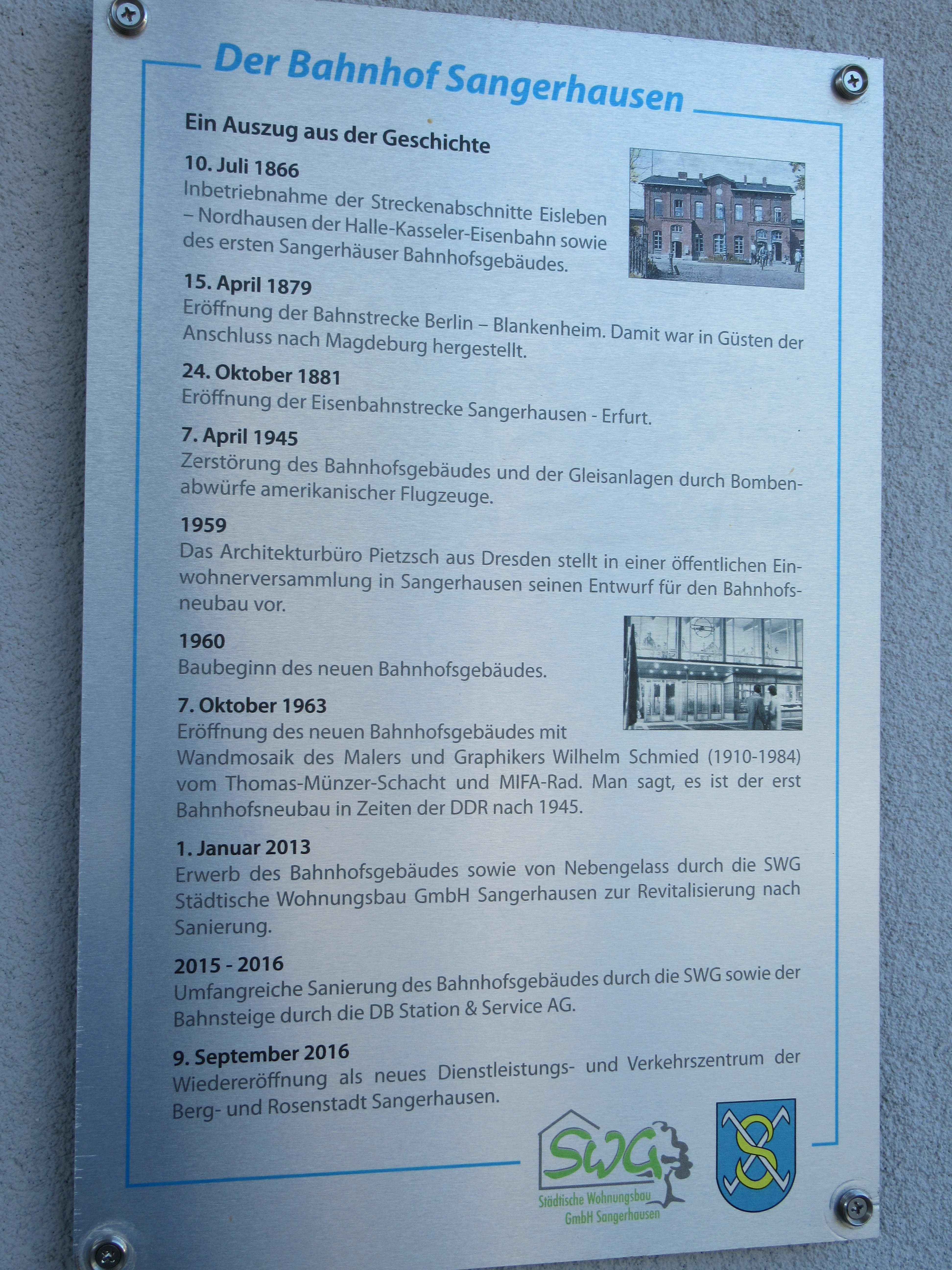 Sangerhausen Railway Station History